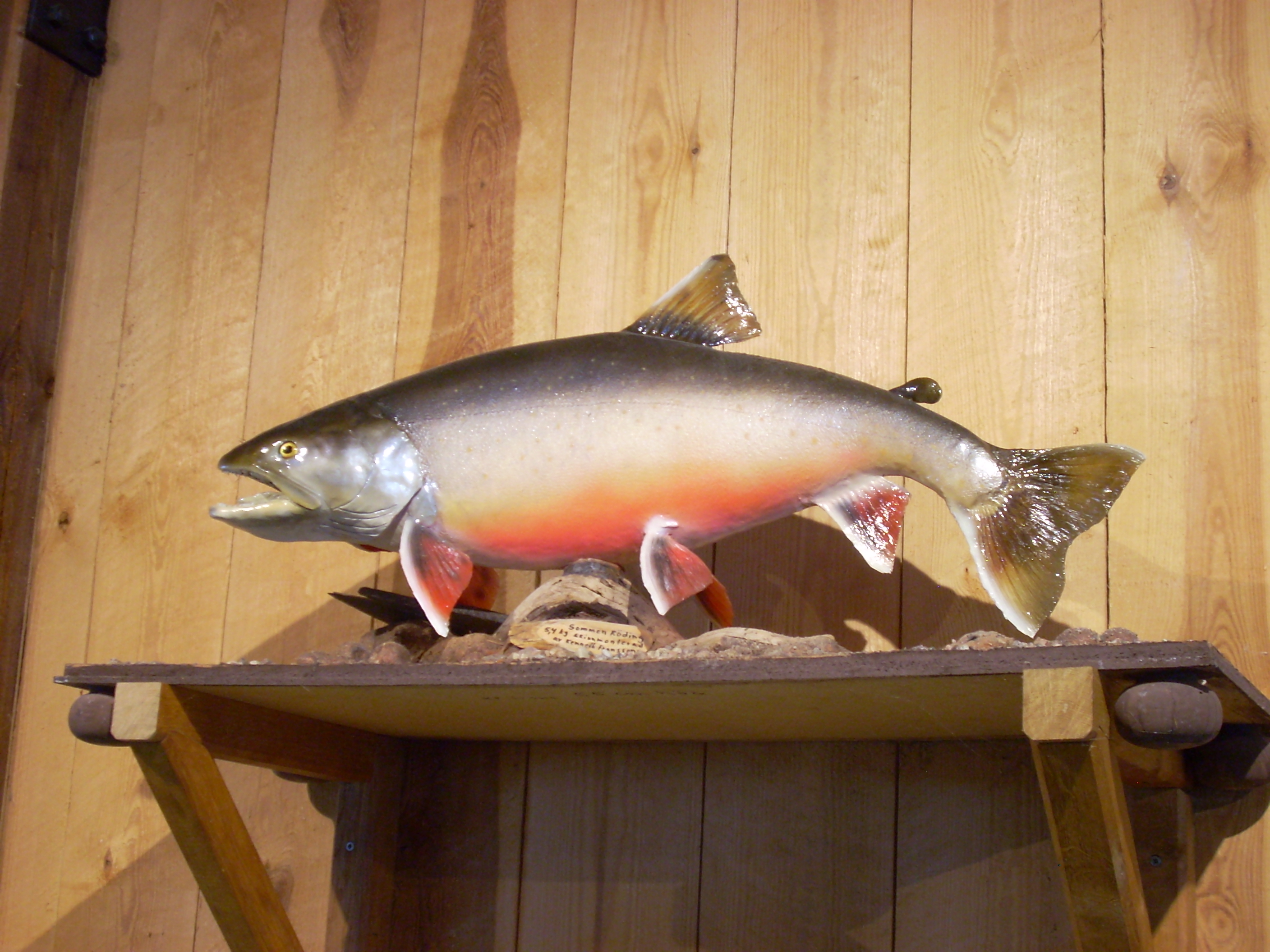 Model of full-grown Sommen char in the nature centre naturum Sommen. Note the red stomach. Kenneth Fransson created the model.